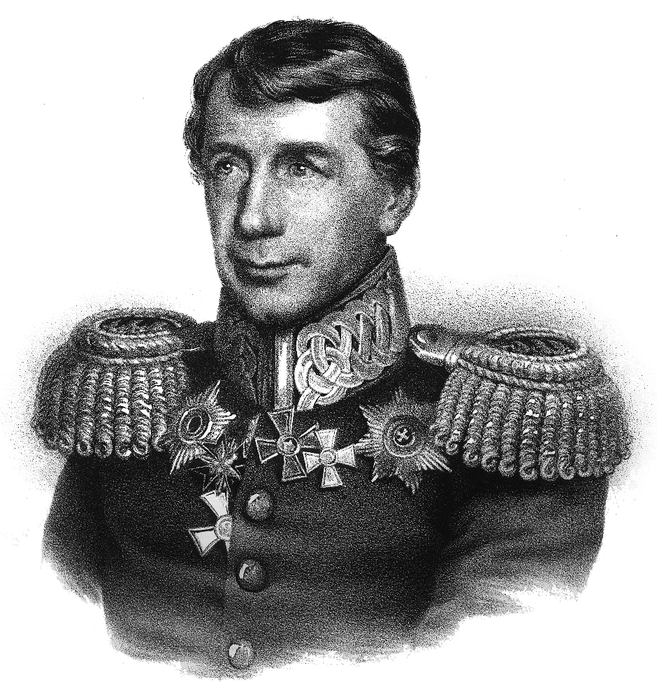 Adam Johann von Krusenstern